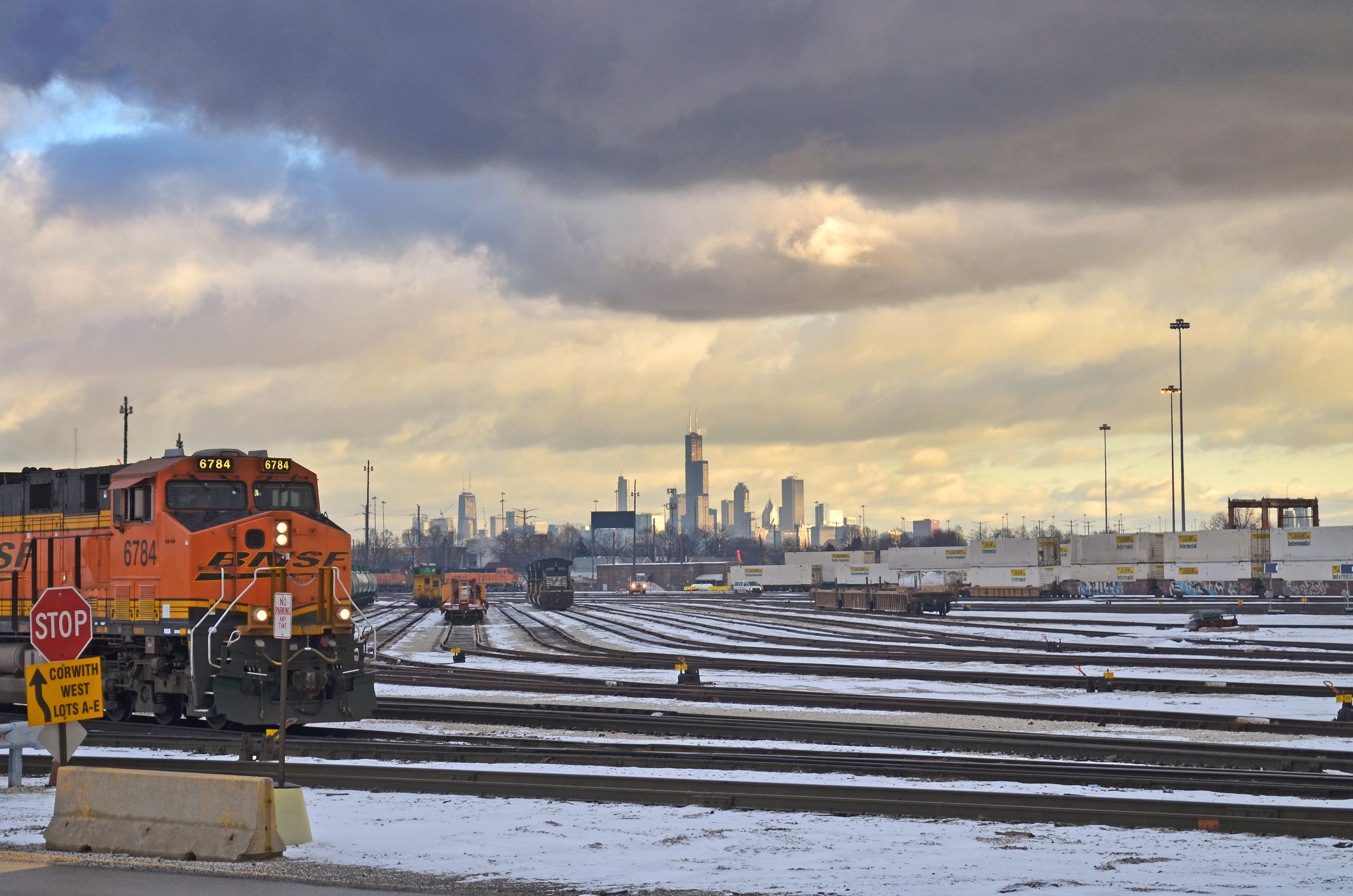 BNSF Corwith rail yard with downtown Chicago in background 01-23-2017